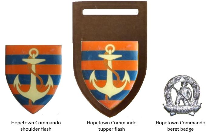 SADF era Hopetown Commando emblem